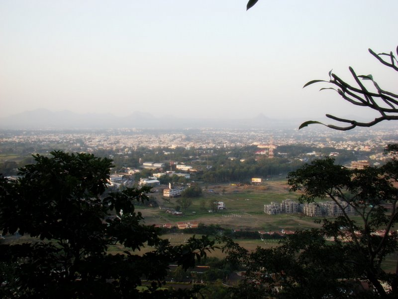 This is the view of Nashik from the Pandav leni mountain.